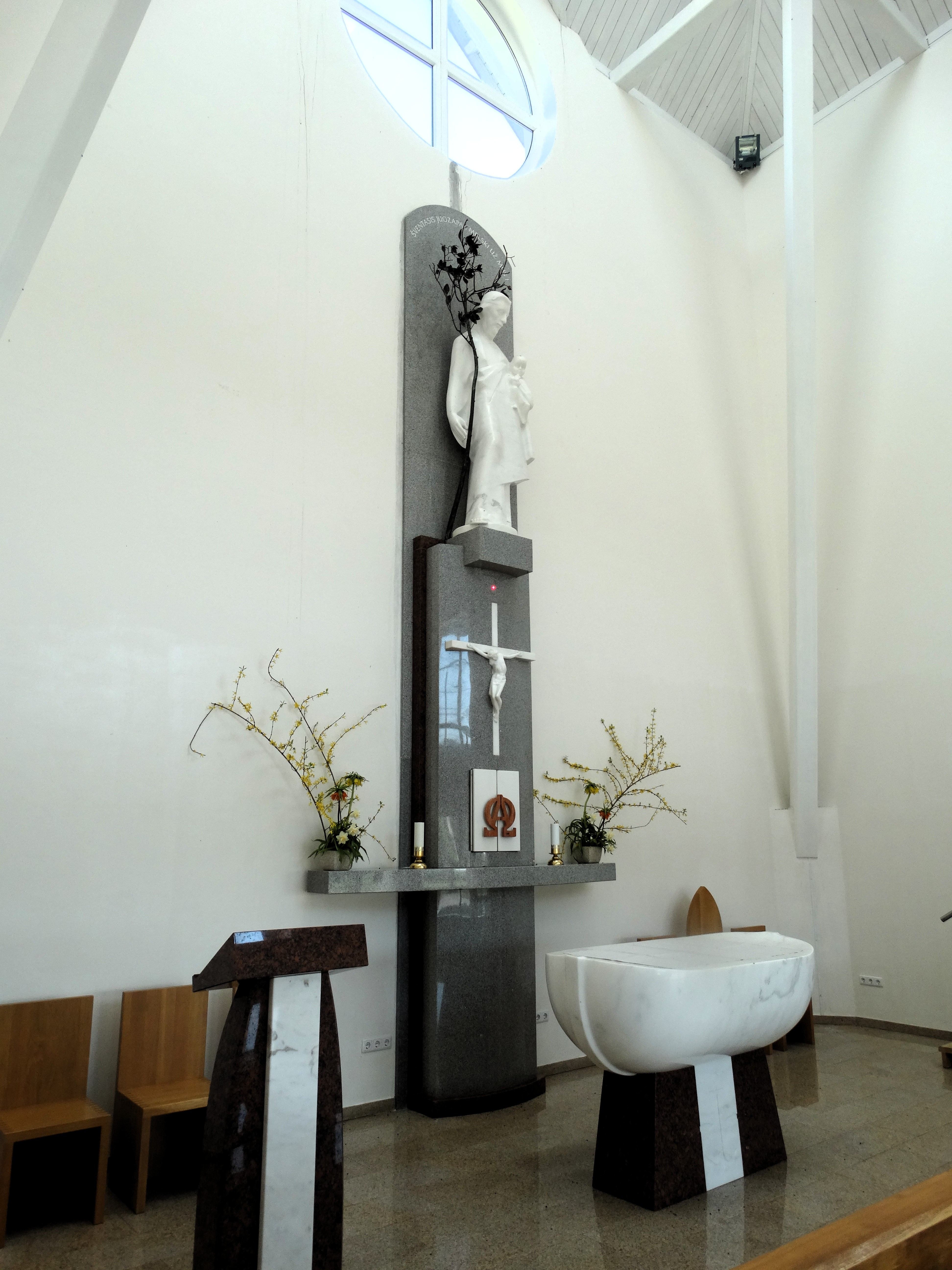 Chapel in Guronys, Kaišiadorys District, Lithuania